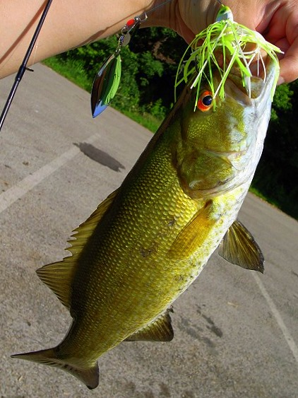 The picture of smallmouth bass at Monongahela River.